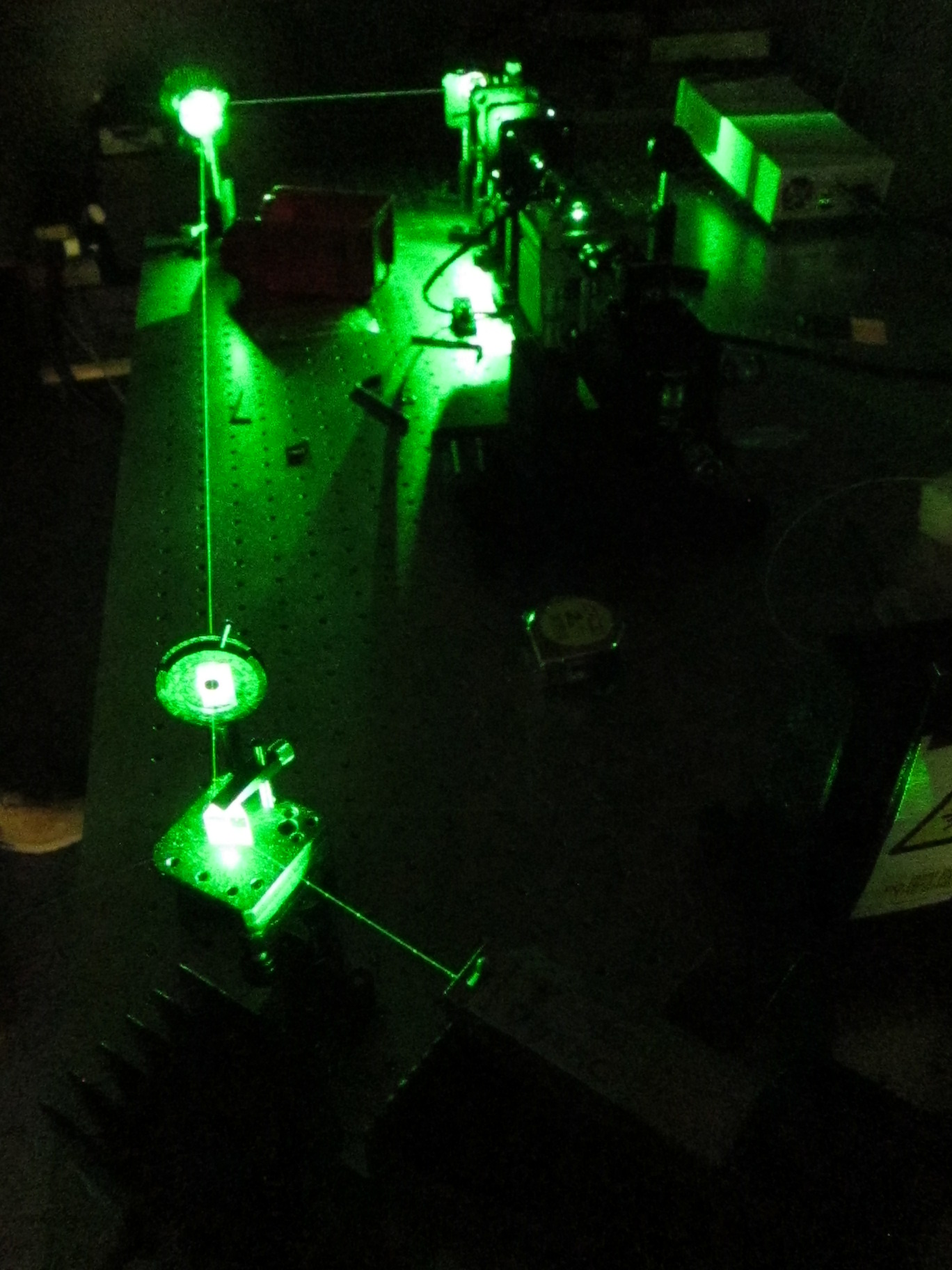 optical table with doubled Nd/YAG laser